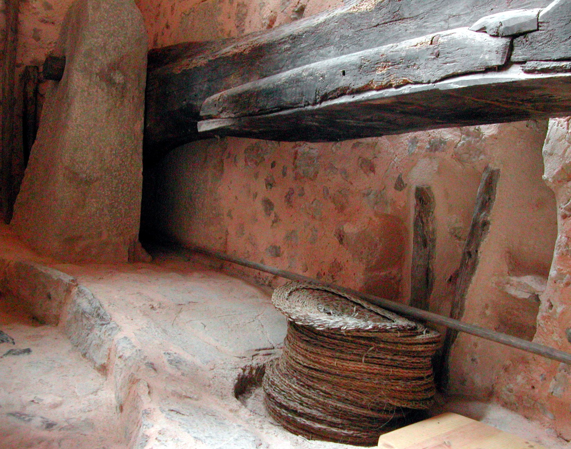 Can Boi oil mill, beam press, Deià, Mallorca.